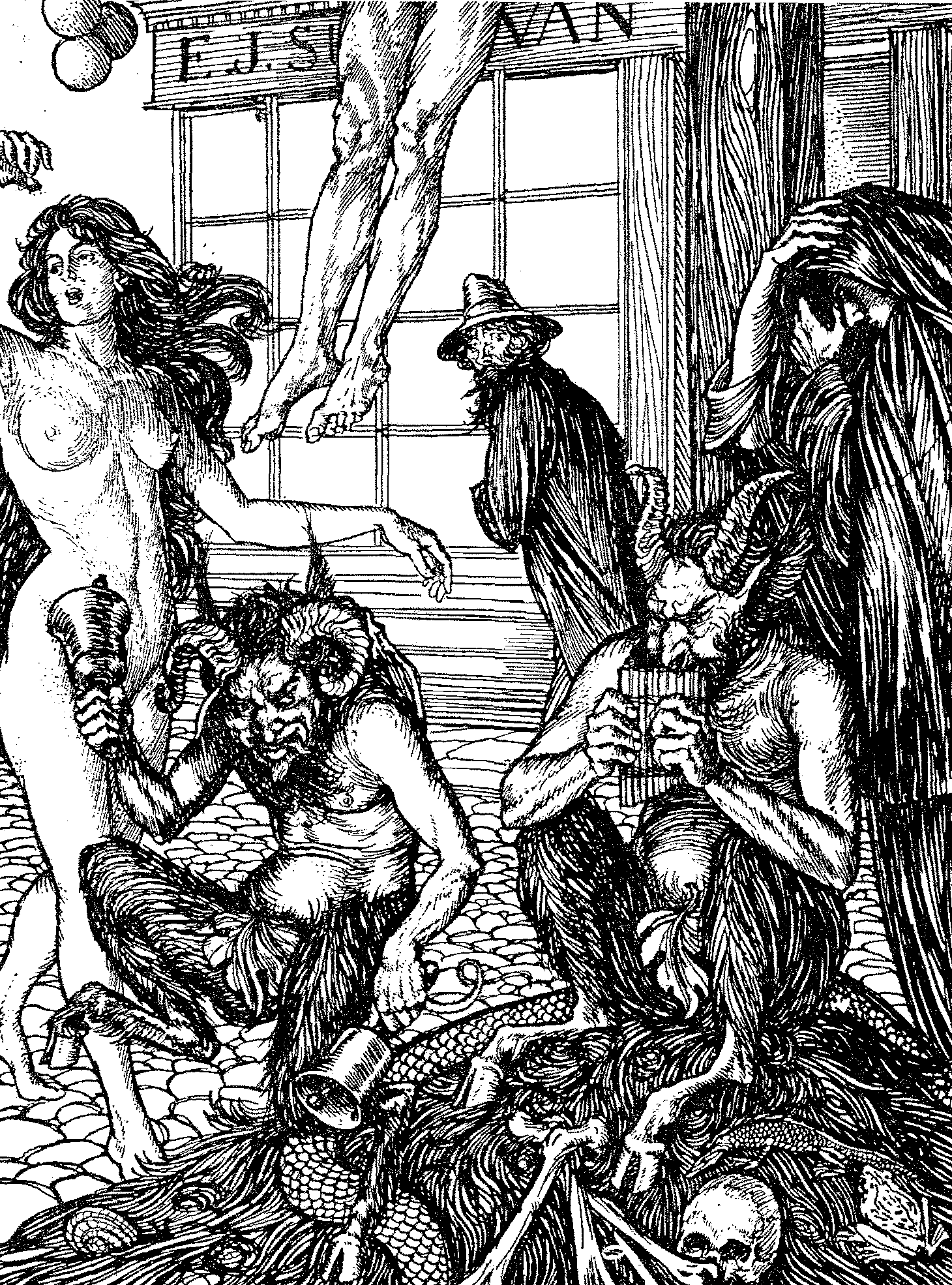 "The Bedlam of Creation", illustration depicting Diogenes Teufelsdroch in Monmouth Street